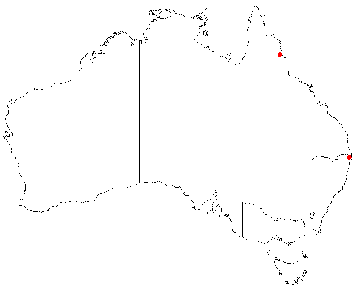 Australian distribution of Amyema pliculata based on download from Australasian Virtual Herbarium May 9, 2018